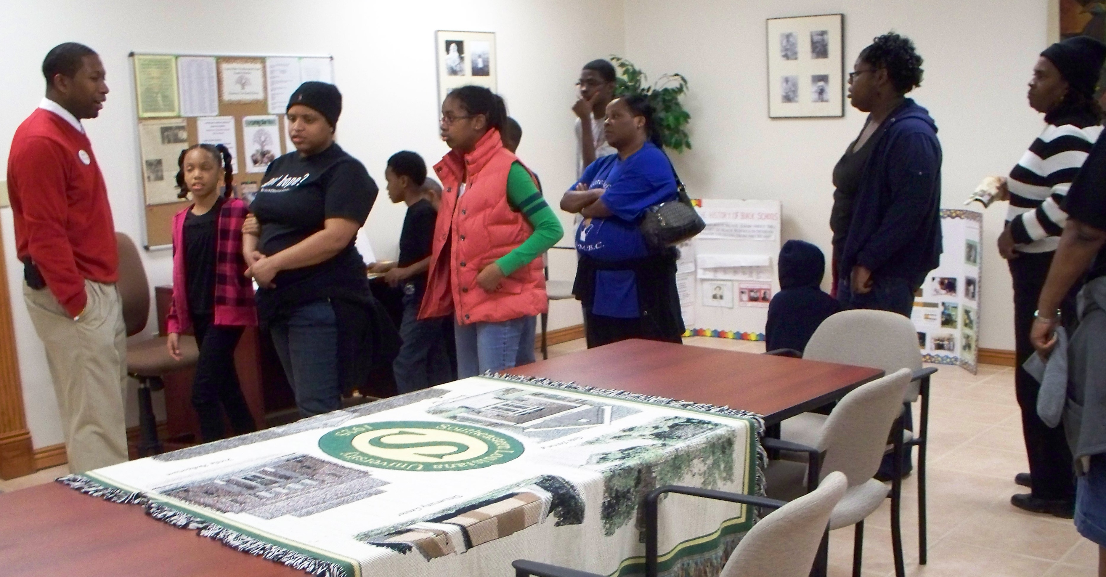 Tourguide (left) shows visitors through the Southeastern Louisiana University Genealogical Research Section of the Tangipahoa Parish African American Heritage Museum in Hammond, Louisiana.